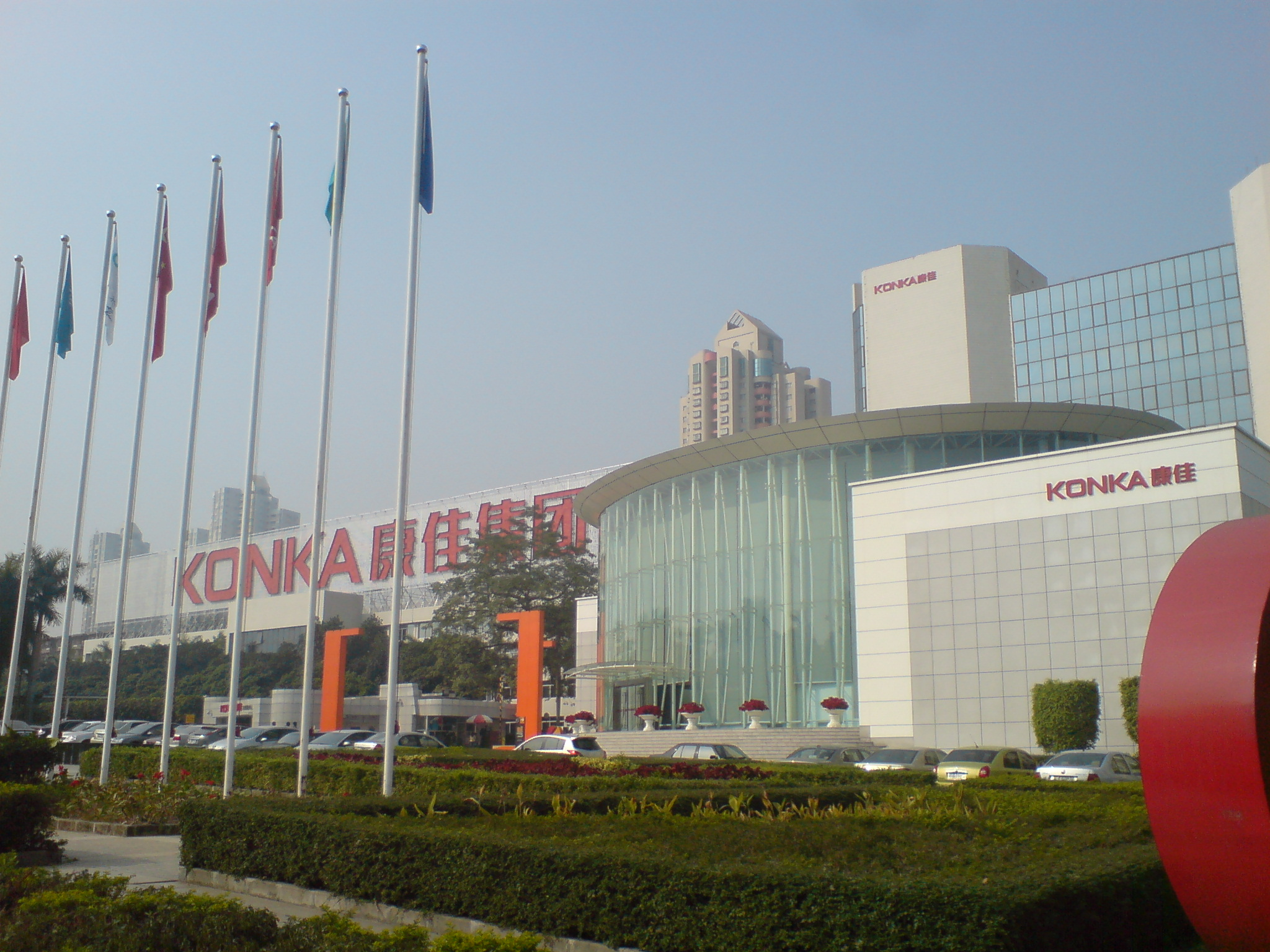 Konka company headquarters, Shenzhen